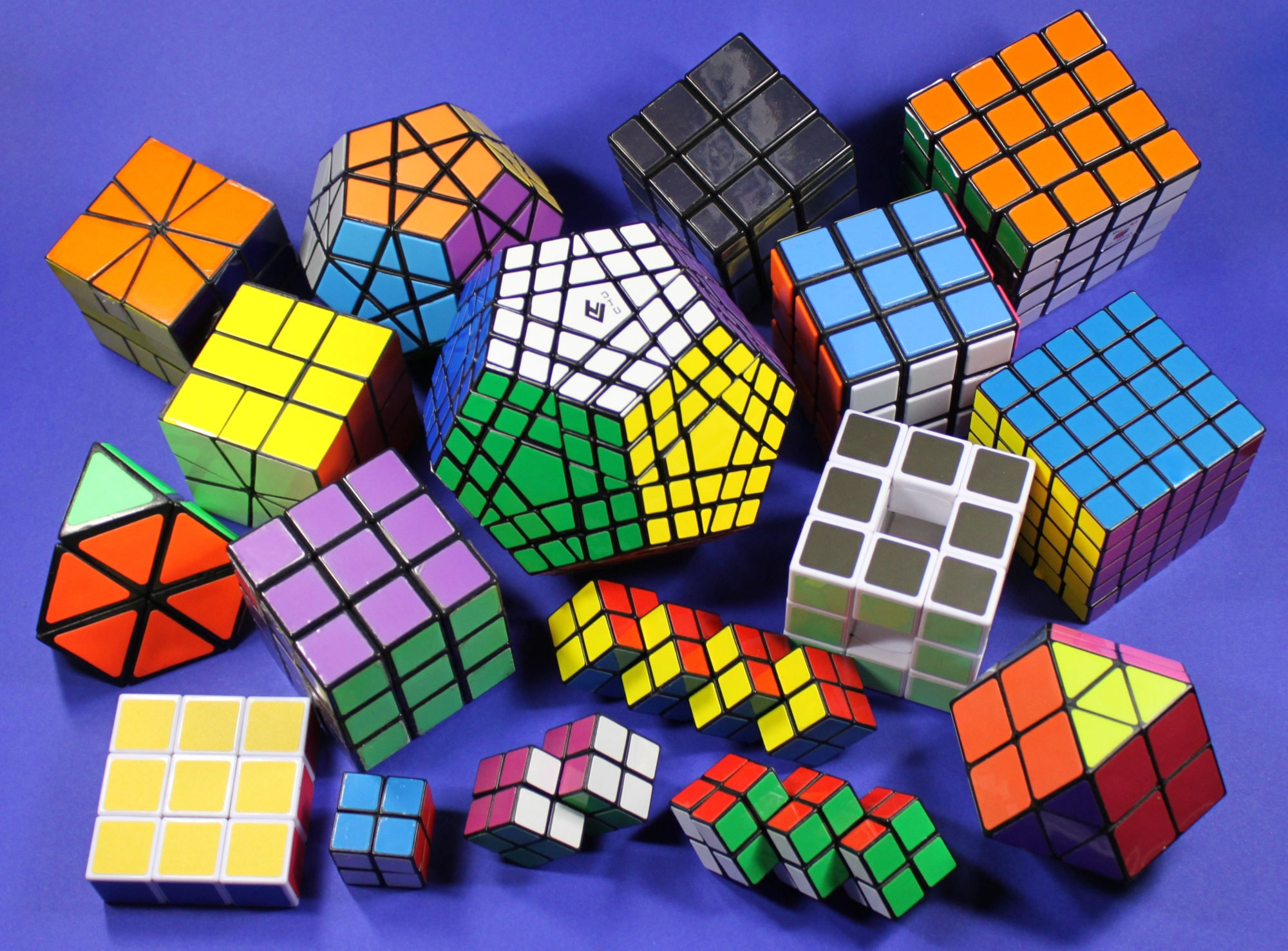 My whole collection so far (nothing missing this time). See notes for details.